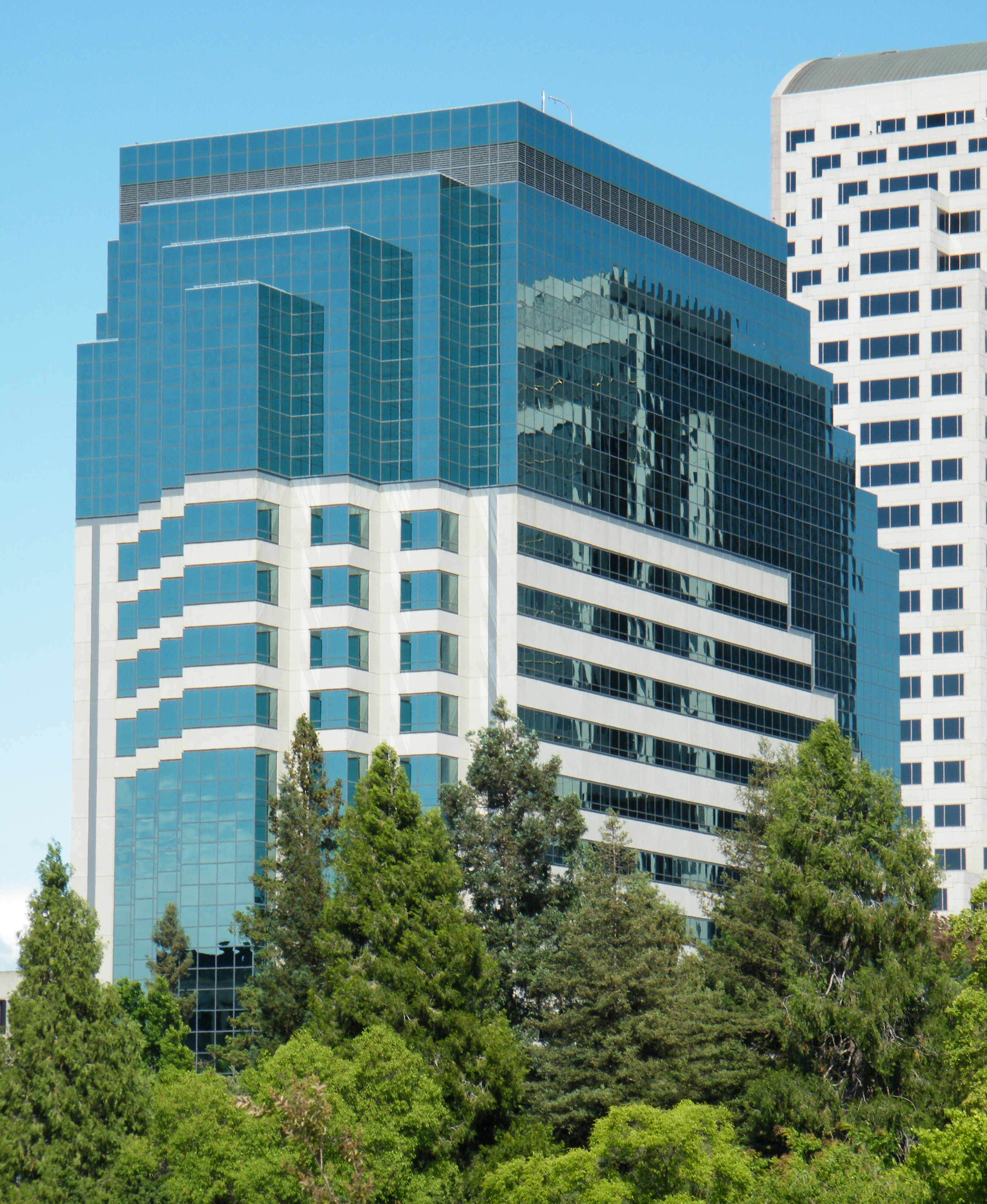 The 300 Capitol Mall office building in Sacramento. As of 2009, major tenants included the California State Controller's Office and the California Department of Insurance.